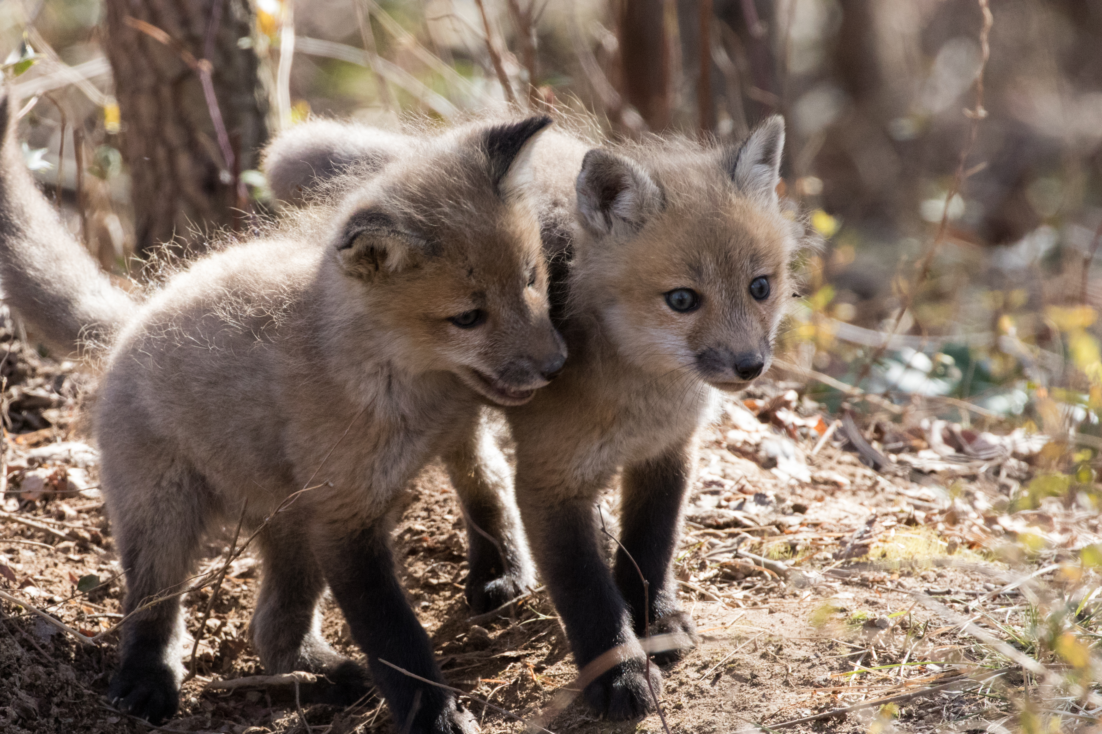 These kits were spotted playing at a national wildlife refuge in Delaware. Credit: Jennifer Cross/USFWS